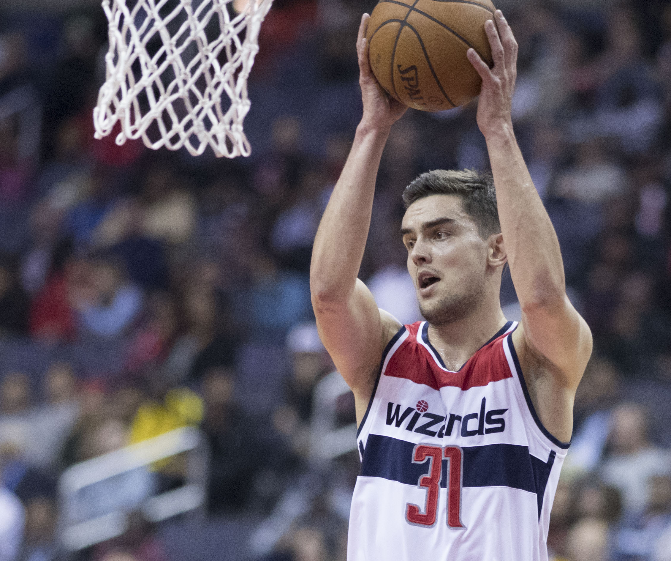 Tomas Satoransky of the Washington Wizards during a game against the Toronto Raptors at Verizon Center on November 2, 2016 in Washington, DC.